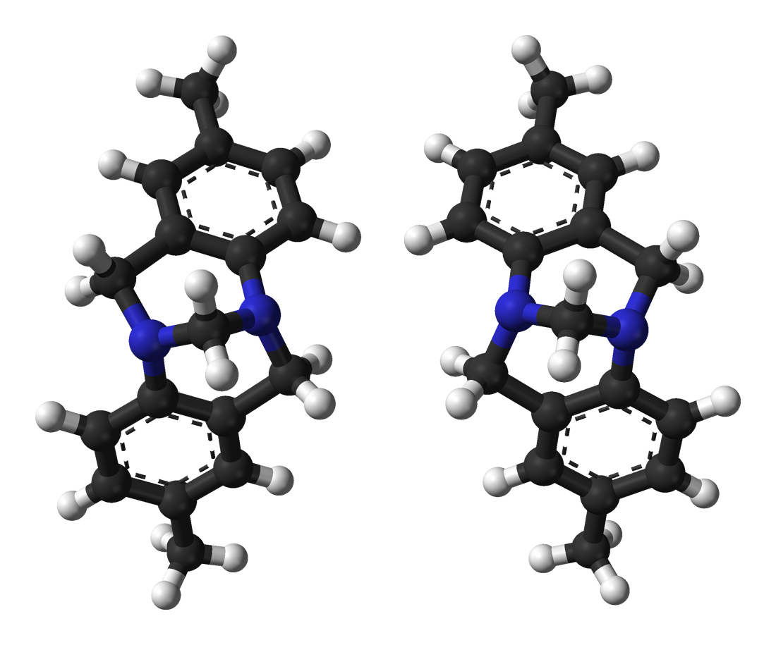 Ball-and-stick model of the two enantiomeric forms of Tröger's base.